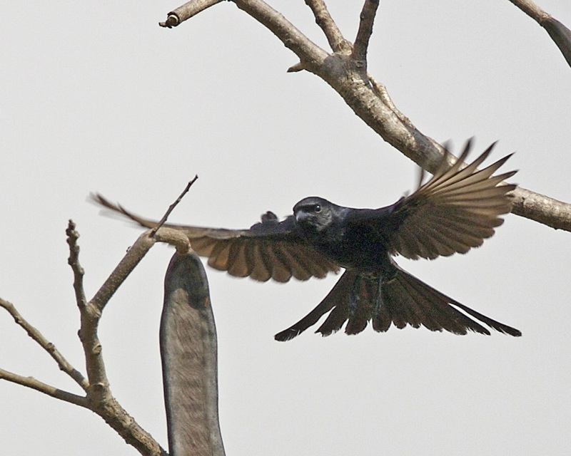 Black Drongo